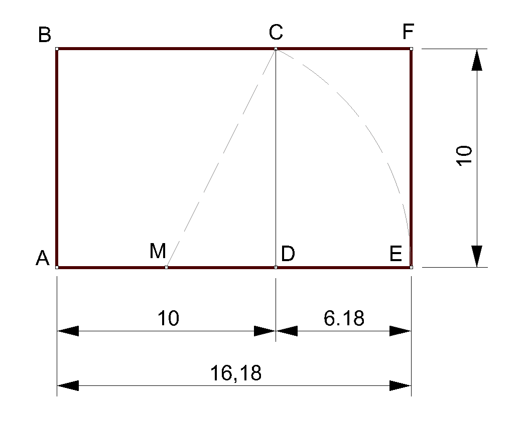 Golden-rectangle